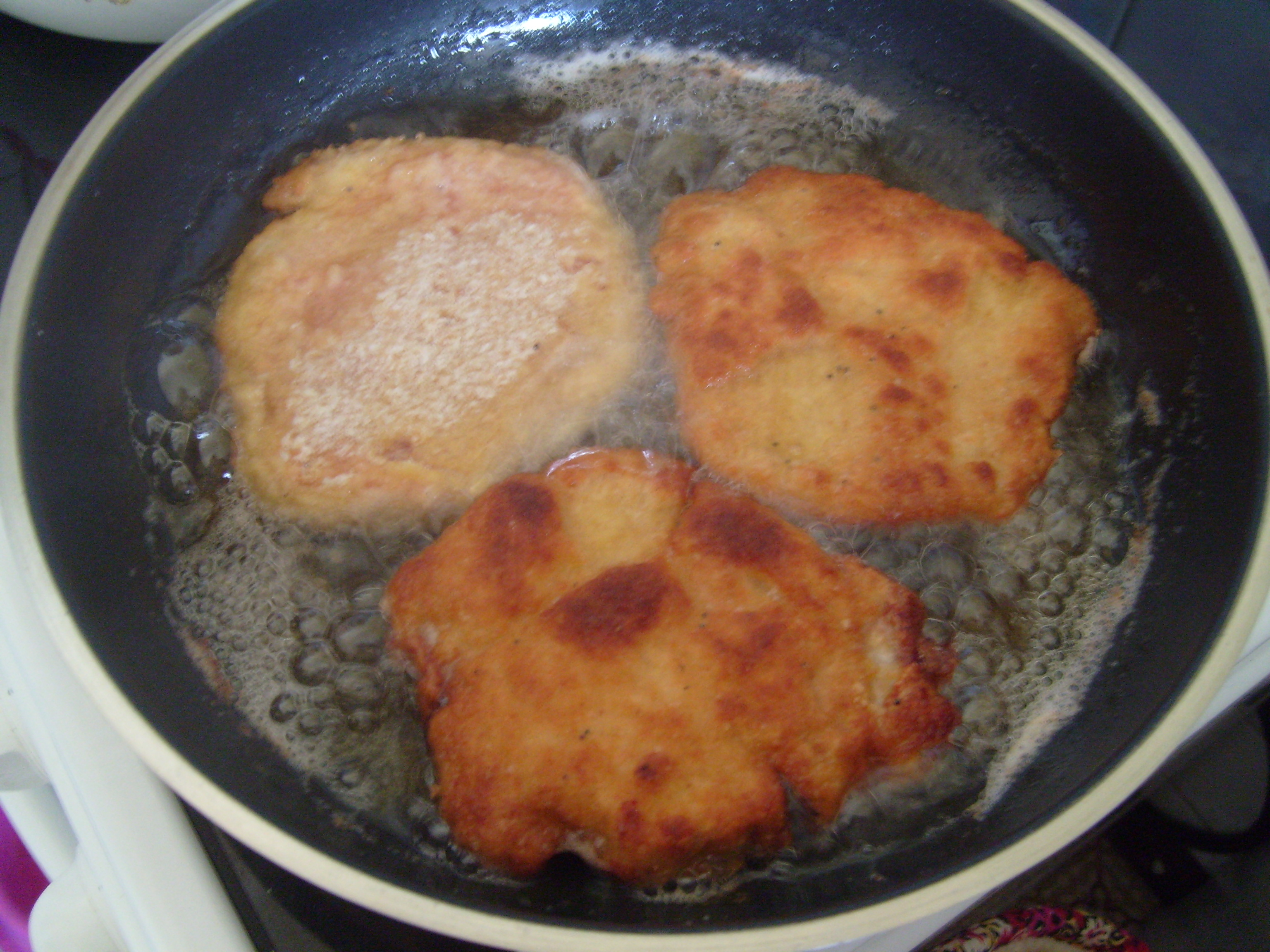 Frying schnitzels.